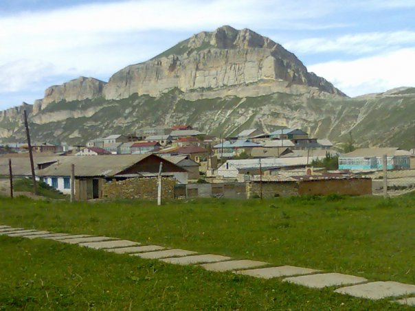 View of the village of Balkhar in the Republic of Dagestan in Russia.